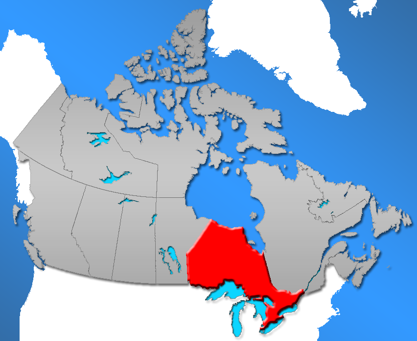 Province of Ontario in Canada